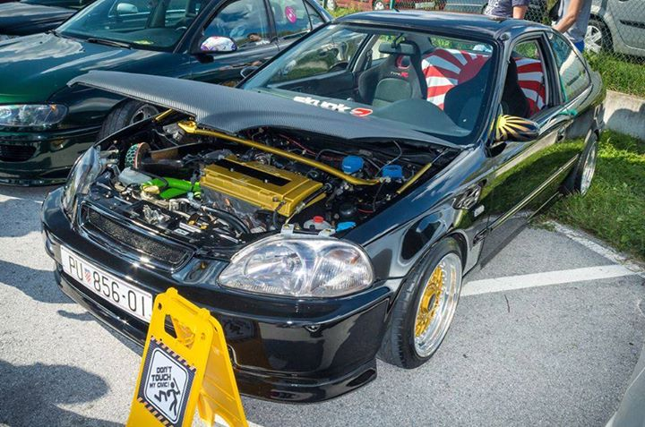 Honda JDM